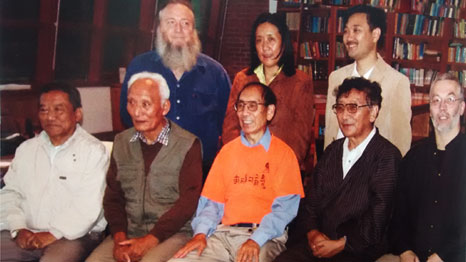 Tibetan Language Scholars and Calligraphy Experts meet in New York Laste Library